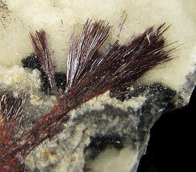 Kermesite, Calcite Locality: Pezinok, Malé Karpaty Mts, Bratislava Region, Slovakia (Locality at ) Size: 5.9 x 5.7 x 2.6 cm. A fine specimen of radiating sprays of flat-lying, highly lustrous, acicular, deep wine-red kermesite crystals on calcite-covered massive sulfide matrix from a classic locale - Pezinok, Slovakia. The crystals reach 2.3 cm on this piece, making for excellent material for the species and locality. Color is obvious without need for fancy lighting, and the contrasting matrix is most unusual. This is a very attractive piece with large crystals for the locale...and rare on the market today, as well.